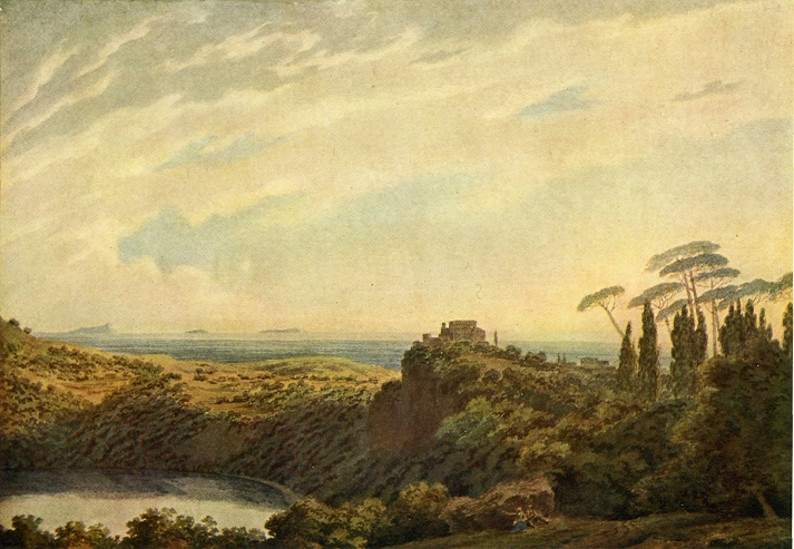 Lake Nemi by John Robert Cozens